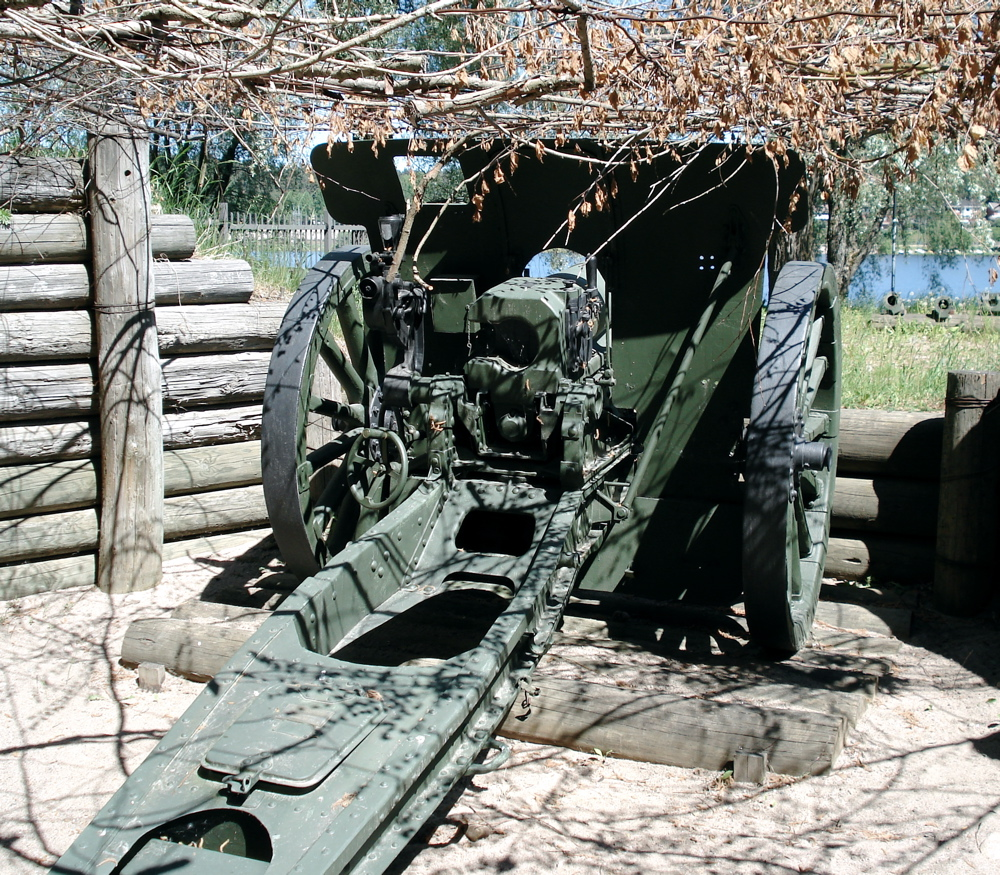 Soviet 122 mm howitzer Model 1909-1937, displayed in Hämeenlinna Artillery Museum. The Model 1909 howitzer was based on a German Krupp design. They were produced in Imperial Russia and then in the Soviet Union. As was typical for most World War I artillery pieces, the gun was modernised from 1937 onwards, the resulting guns called Model 09-37. Photo taken on June 18, 2006. Source: Photo by me, User:Balcer.